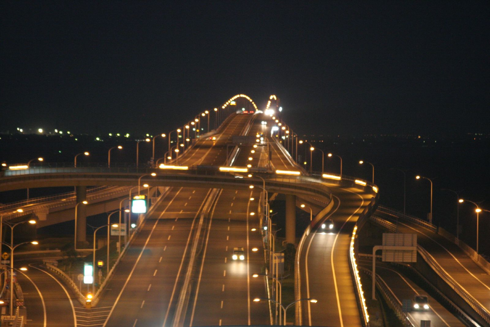 The bridge-tunnel crossover point of the Tokyo Bay Aqua-Line. There is a rest area called "Umihotaru".